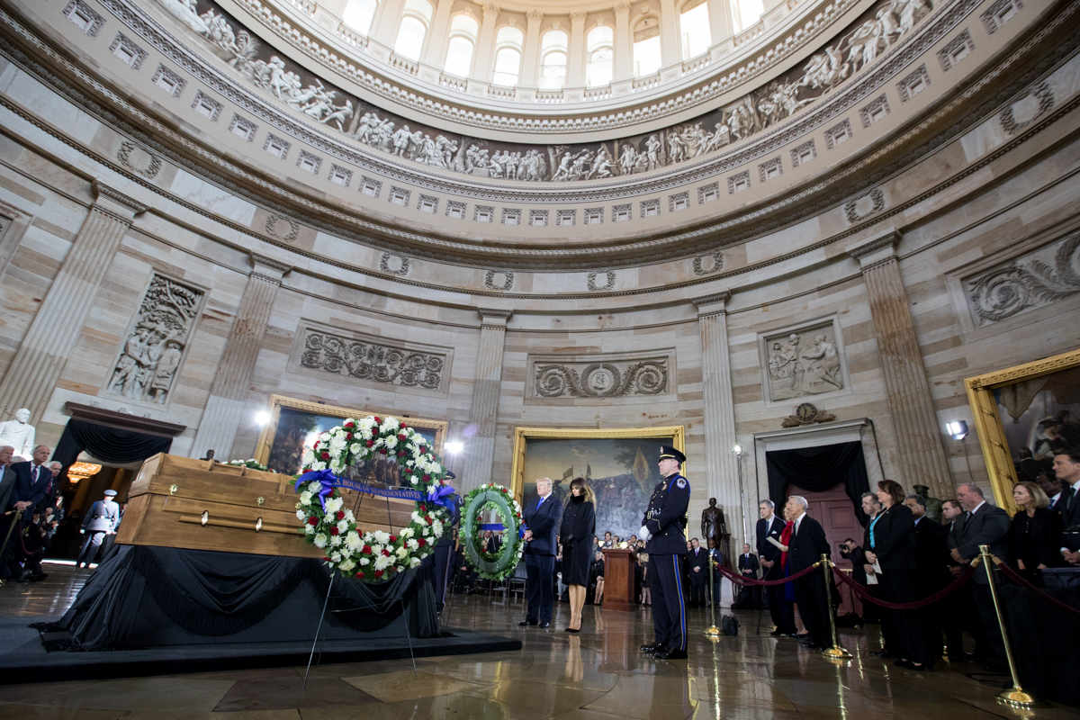 President Donald J. Trump and First Lady Melania Trump honor the late Reverend Billy Graham (February 28, 2018)